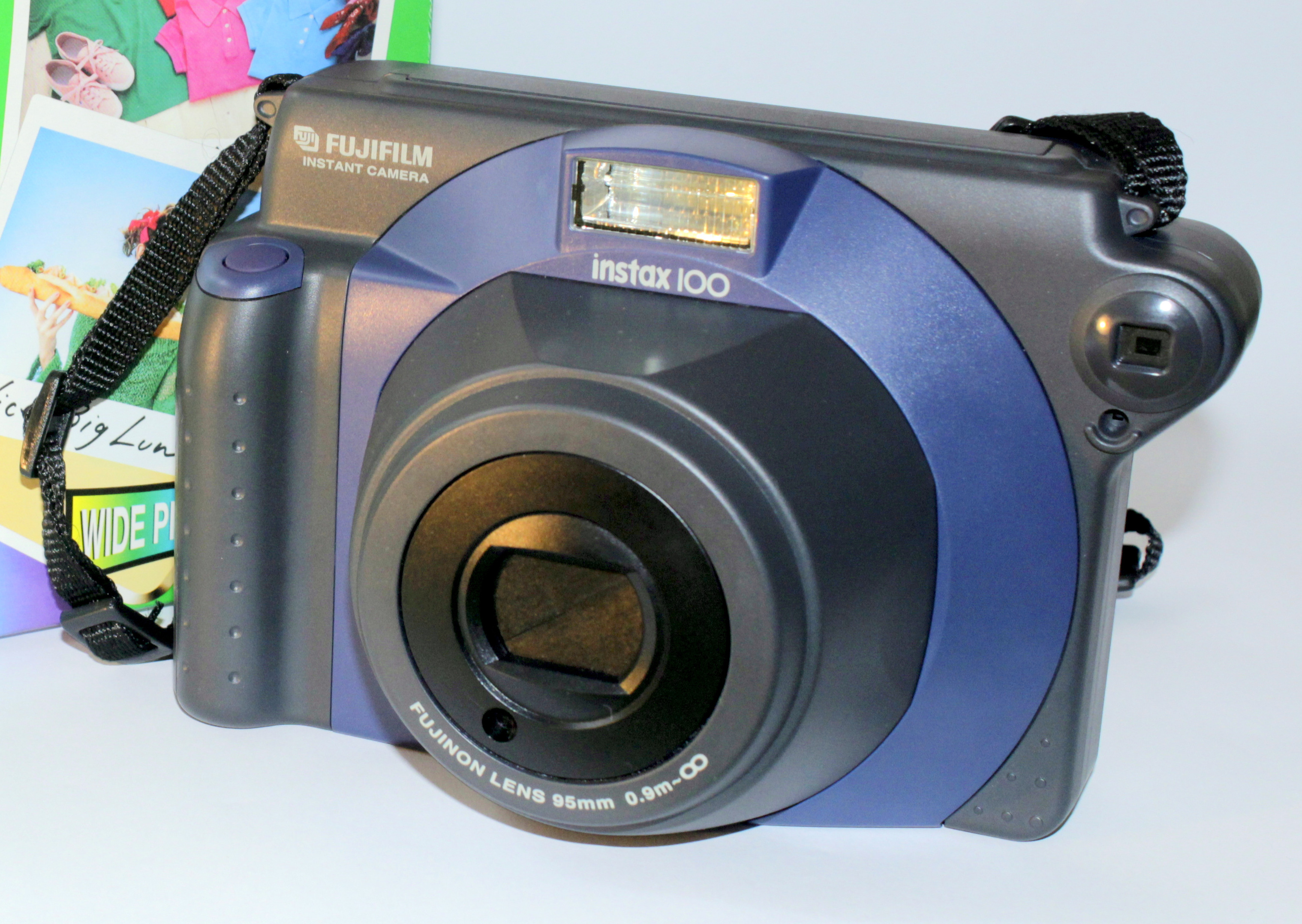 Fujifilm Instax 100 analogic camera. Original box on the side.